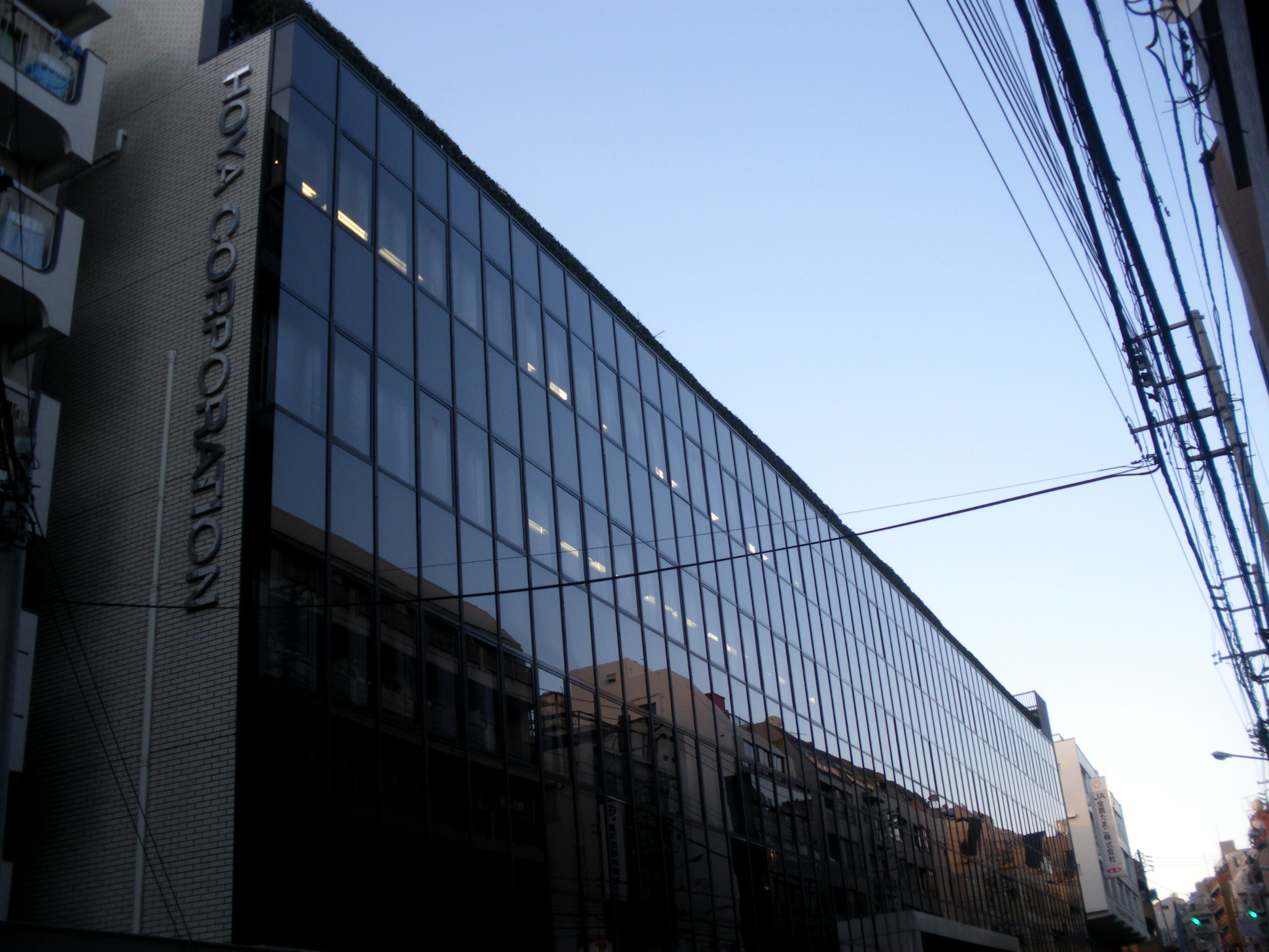 A photo of the head office of HOYA Corporation(a Japanese company that manufactures optical products ranging from laser equipment to contact lenses.),Nakaochiai,Shinjuku-ku,Tokyo,Japan.